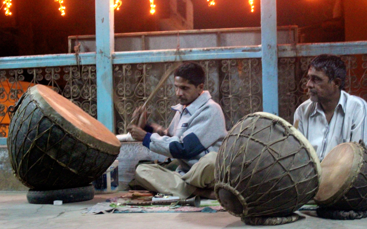 Traditional drummers at Ahmedabad's old city